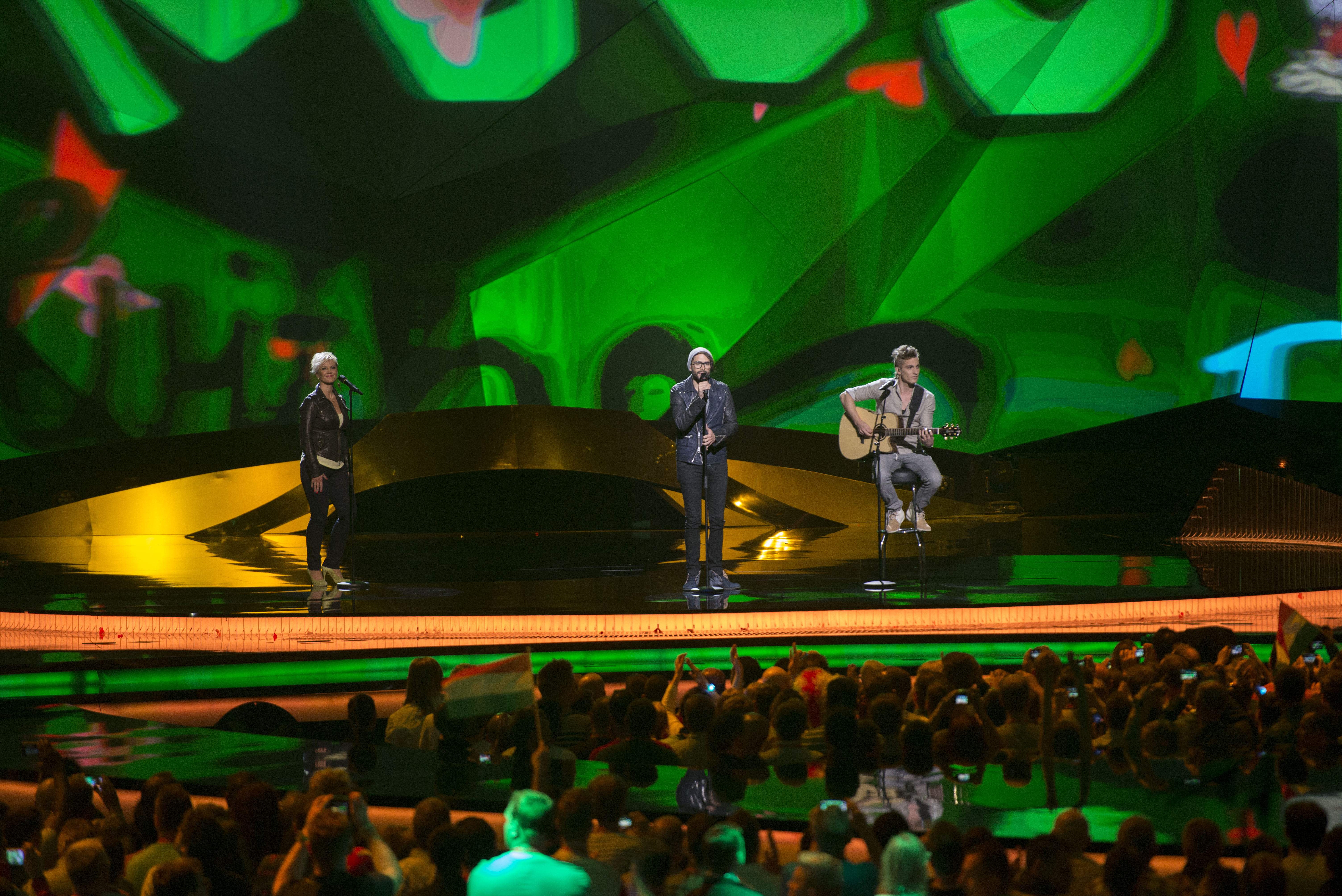 ByeAlex representing Hungary with the song "Kedvesem" (Zoohacker Remix) during the second dress rehearsal of the second semi final of the Eurovision Song Contest 2013 in Malmö. (Help translate this text)